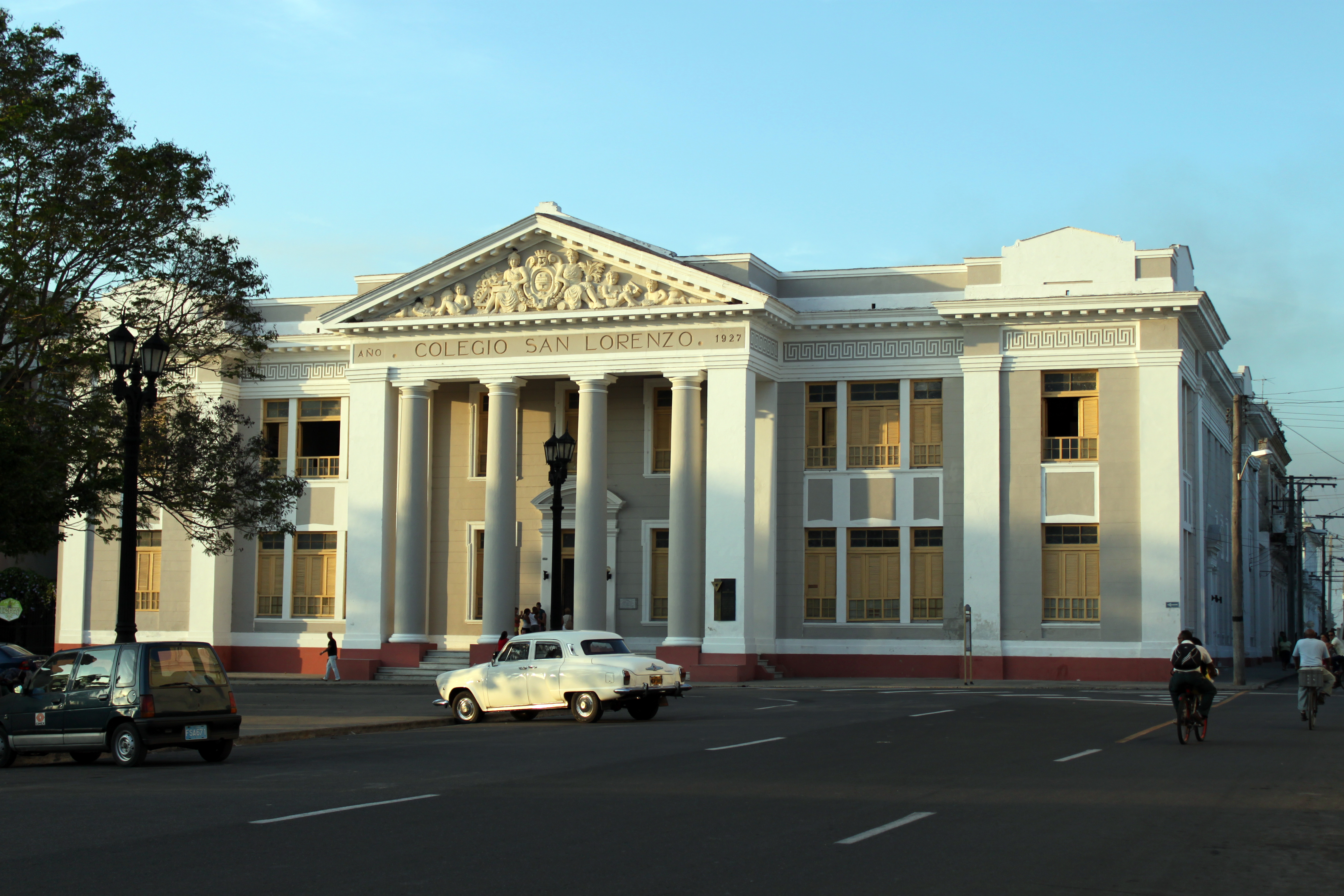 San Lorenzo College, Cienfuegos, Cuba